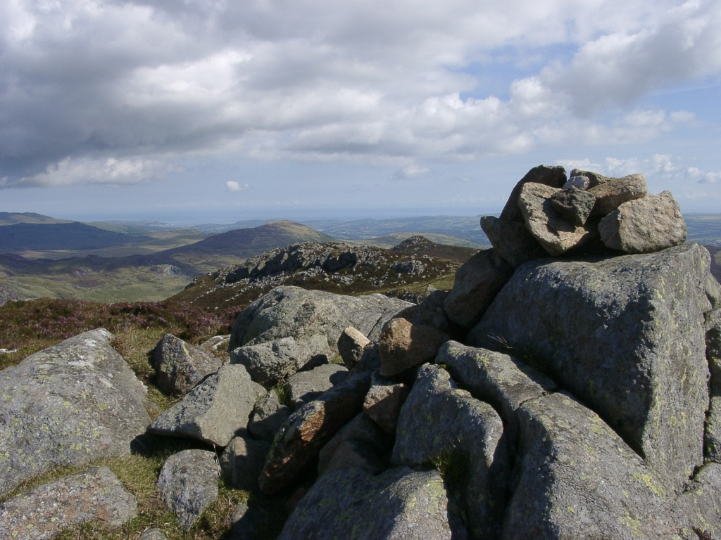 Photo of the 3 peaks of Creigiau Gleision. Taken by me on 9.8.07, and released to the Public Domain.